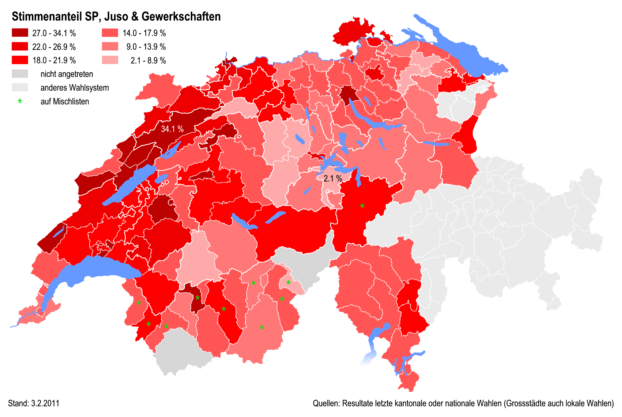 Geographical overview on the votes share of the Social Democratic Party of Switzerland in the districts.